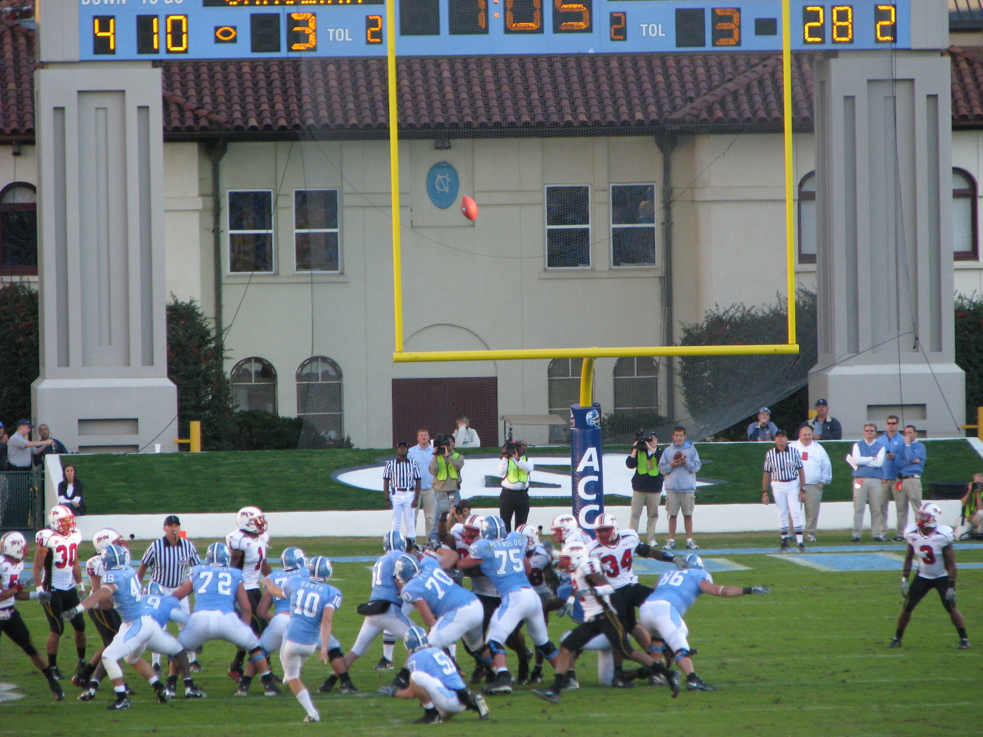 Connor Barth of the North Carolina Tar Heels kicks a field goal against the Maryland Terrapins, Kenan Stadium, Chapel Hill, NC.